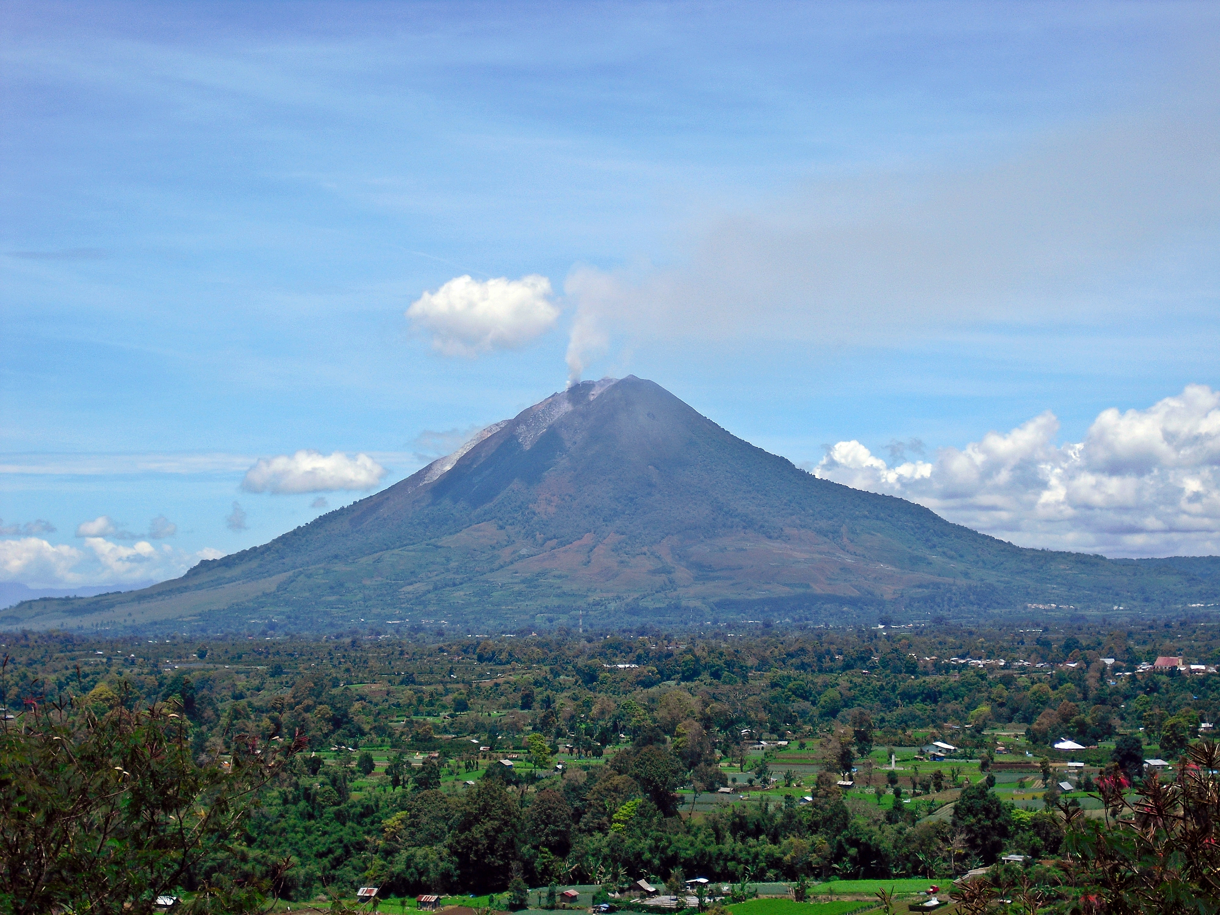 Mount Sinabung seen from Gundaling Hill on 13 September 2010